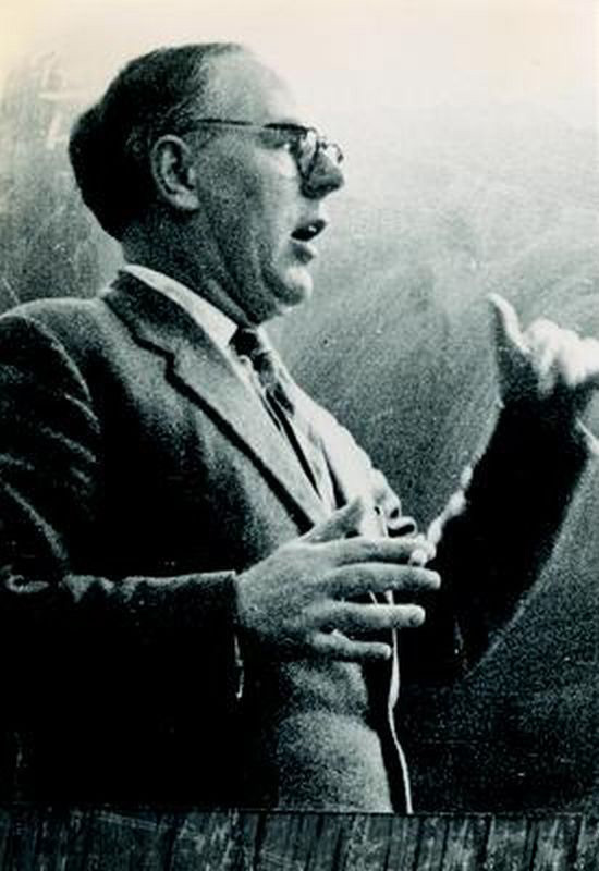 Graham Higman, 1960